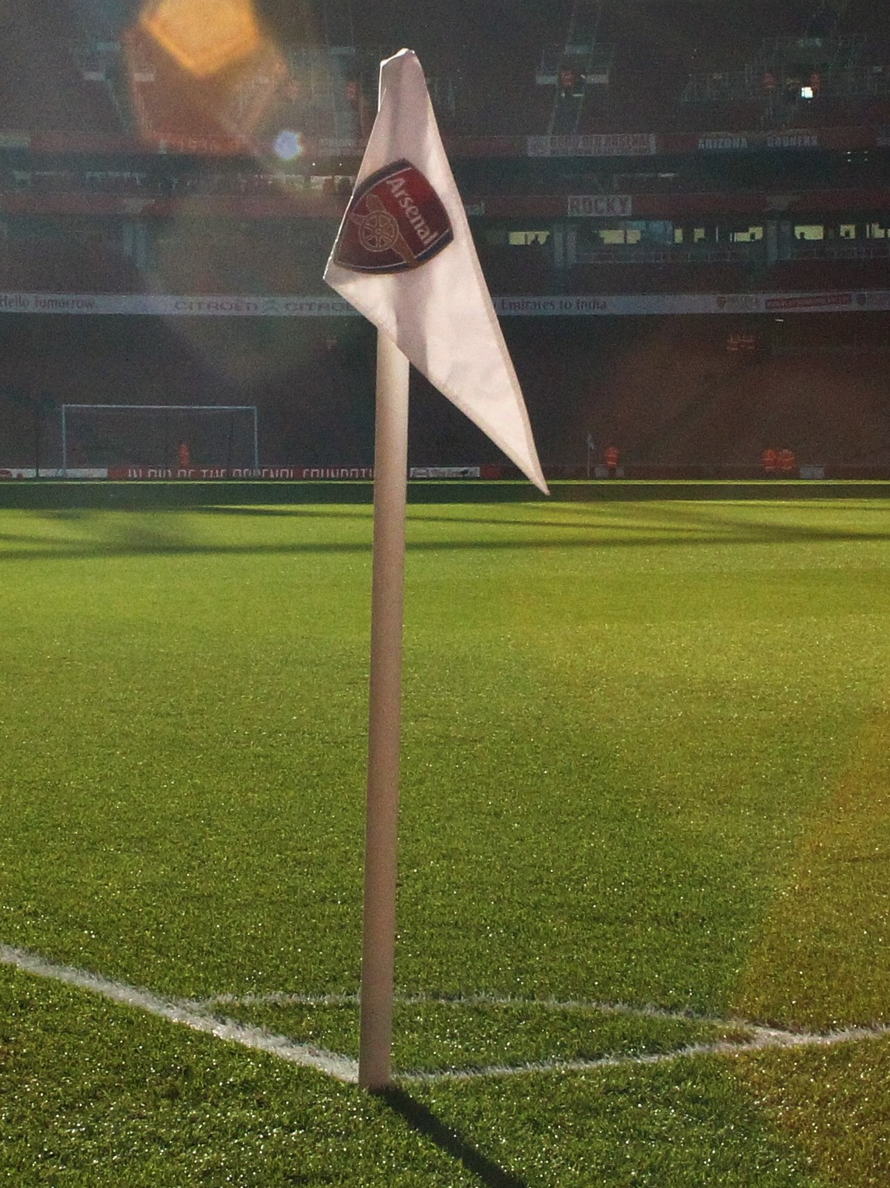 The Emirates Stadium before the game between Arsenal and Burnley.